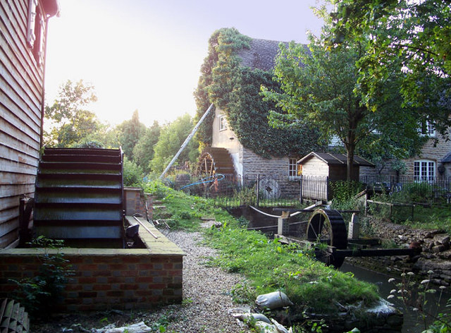 Little Clanfield Mill, Little Clanfield, Oxfordshire. The old mill has been turned into a house but there is still a mill in use using the water wheel in the left foreground.